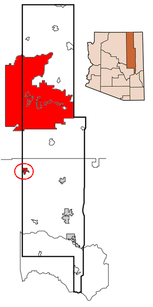 Locator map of the Hopi Reservation — of the Hopi people. Primarily within Navajo County, with a section in Coconino County, northeastern Arizona.